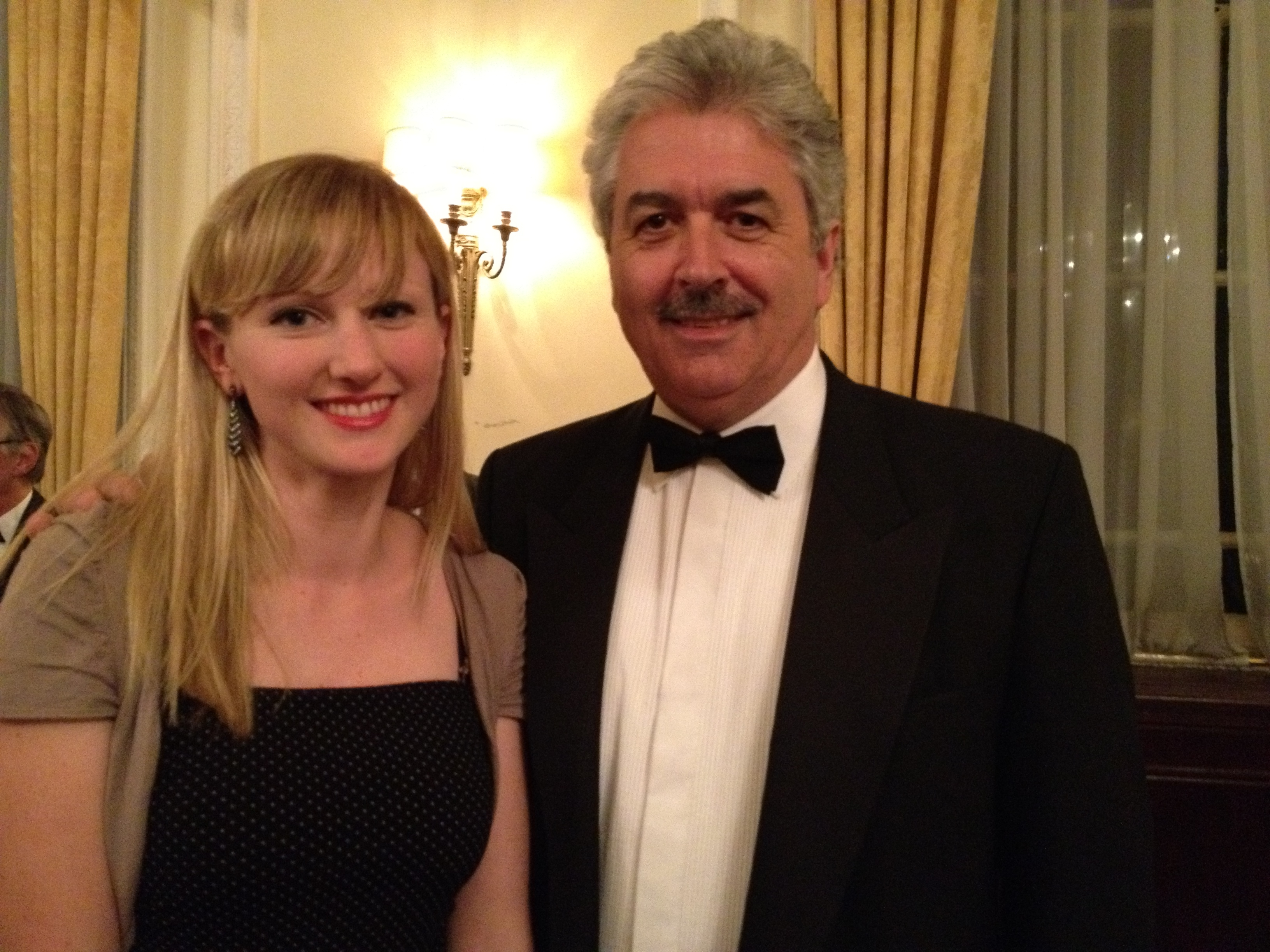 Dominic O'Brien (right)